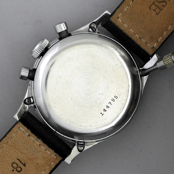 Gallet clamshell 600x600 back